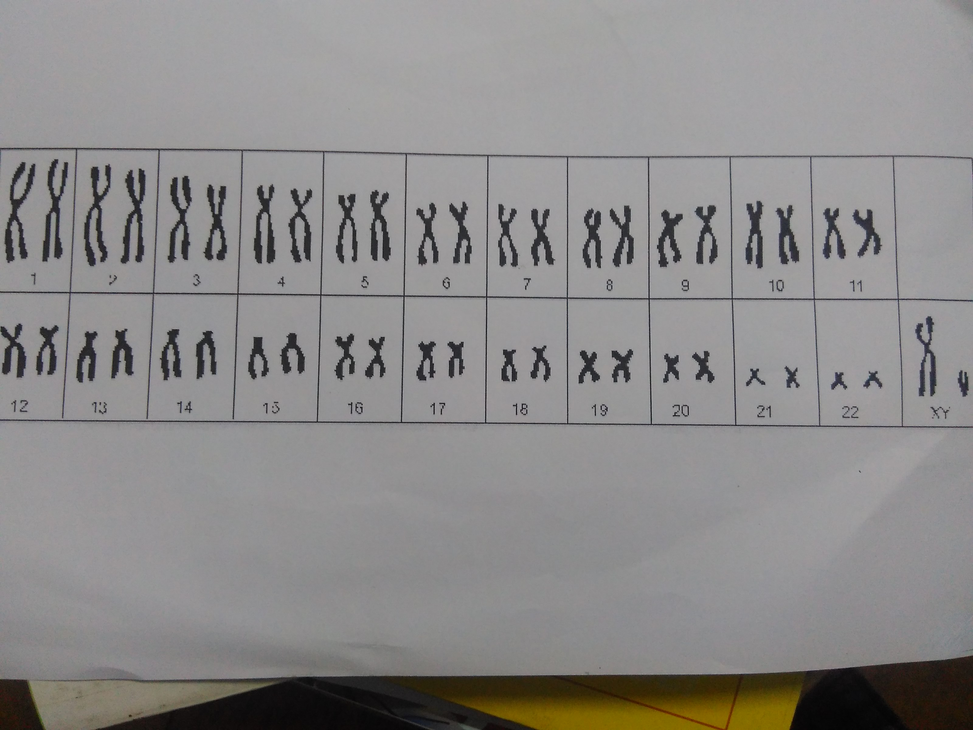 human karyotype